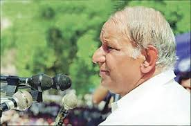 बसपा संस्थापक